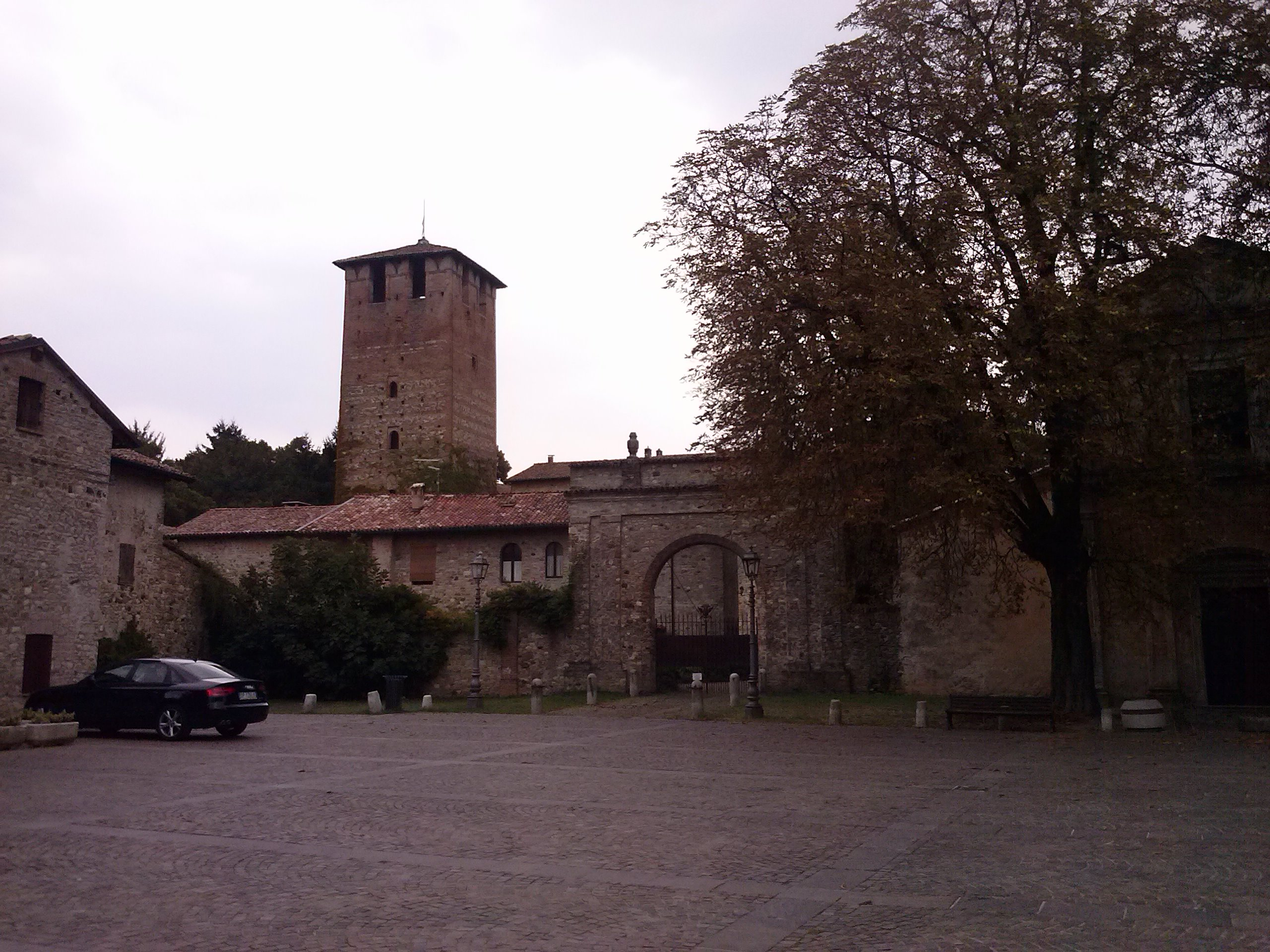 Entrance of the Castle of Vigolzone (Piacenza, Italy)